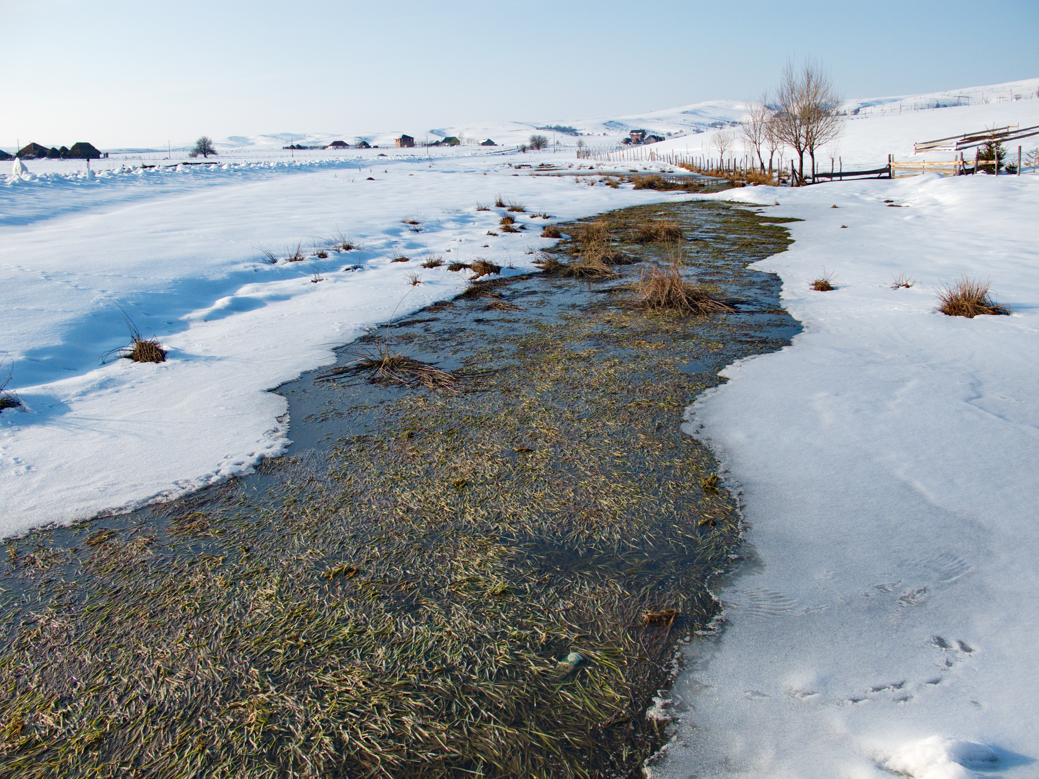 Sunny winter landscape on the Pester plateau with snow on mountain slopes and fields